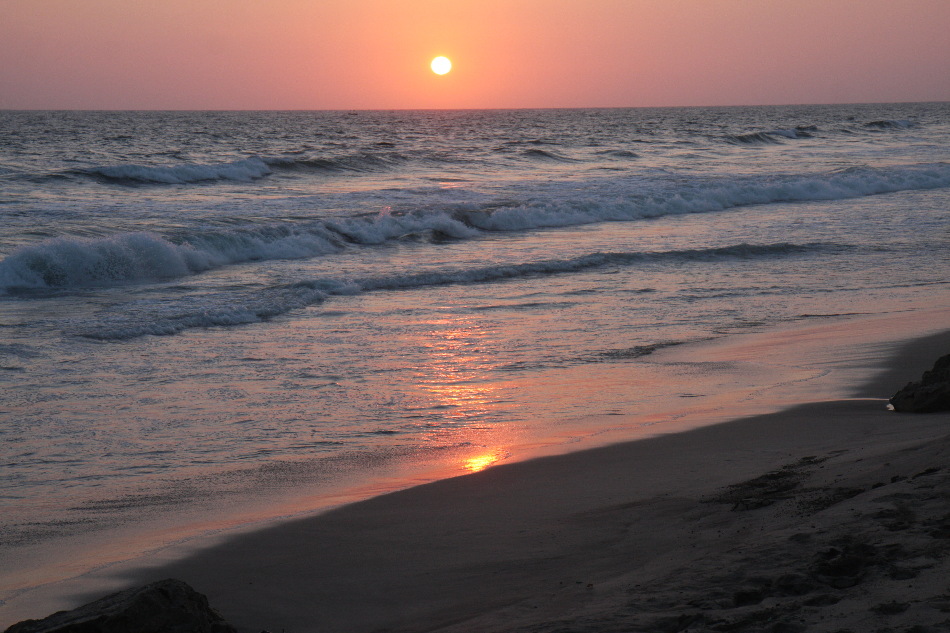 the beach at punta carnero ecuador at sunset